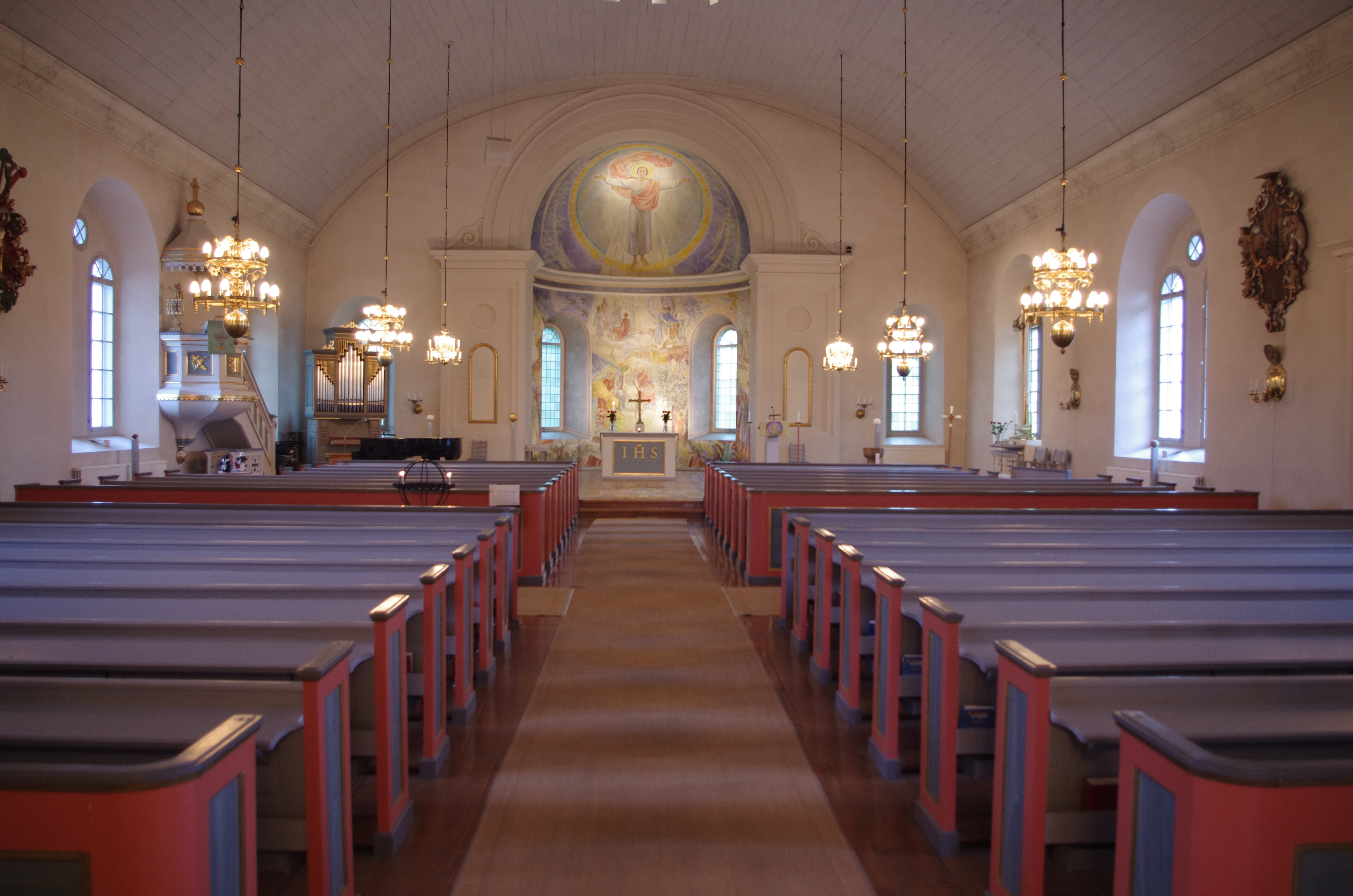 Bankeryds kyrka (swedish: church of Bankeryd), Småland, Sweden.